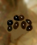 Digital drawing of the eye pattern of spiders in the family Pholcidae.